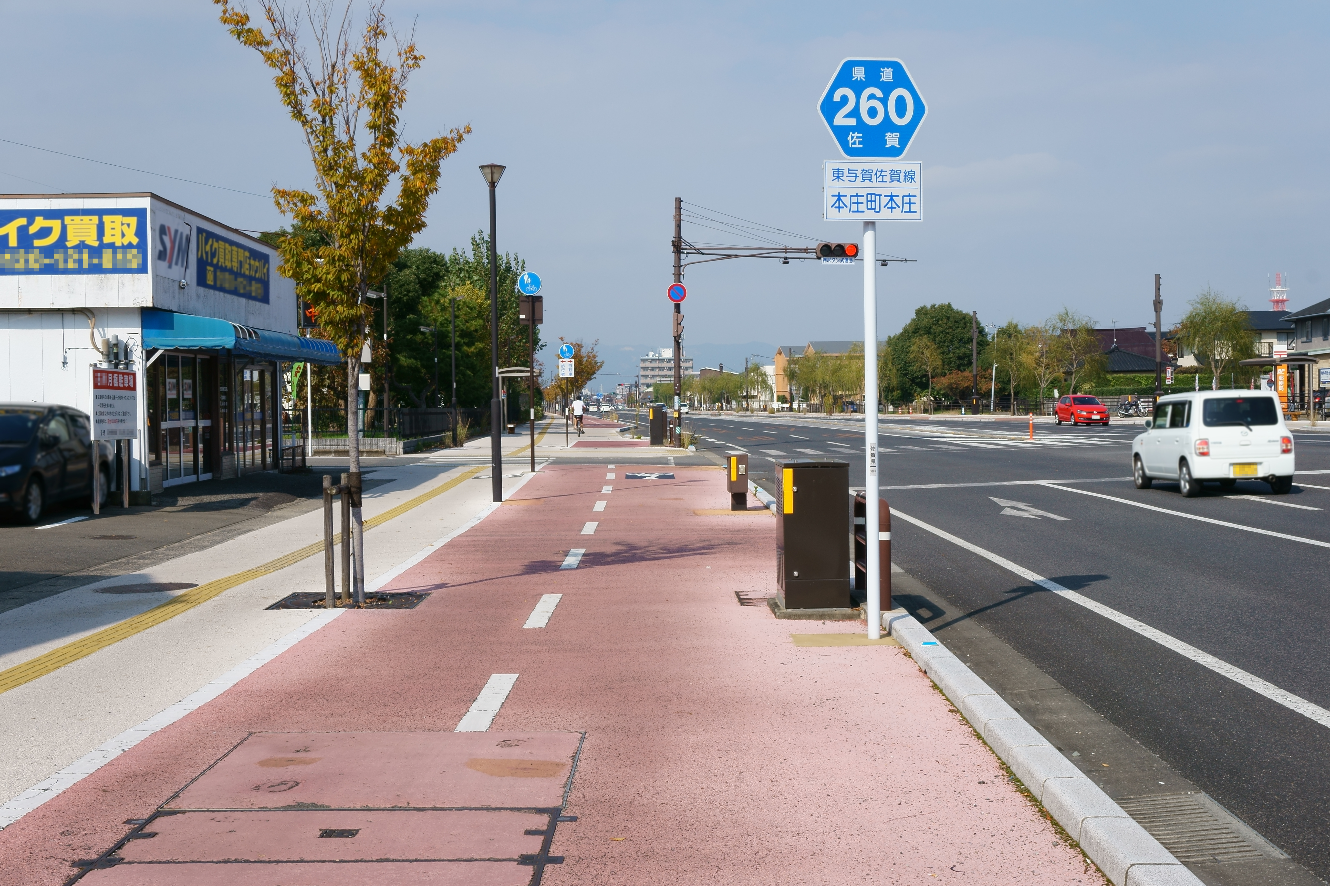 Shared bikeway and walking path in Prefectural Road in Honjo, Honjo-machi, Saga city, Saga prefecture.